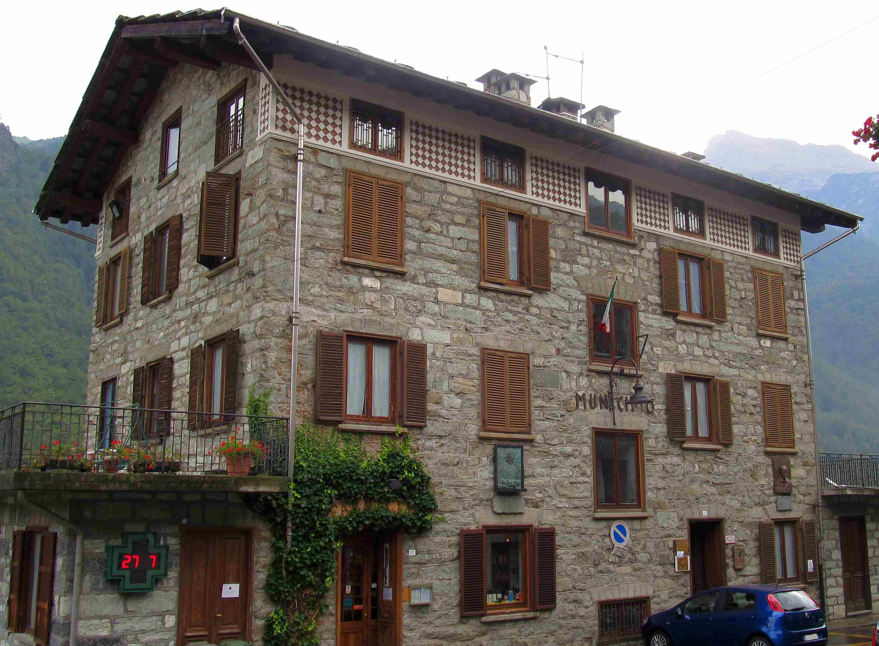 Ala di Stura (TO, Italy): town hall